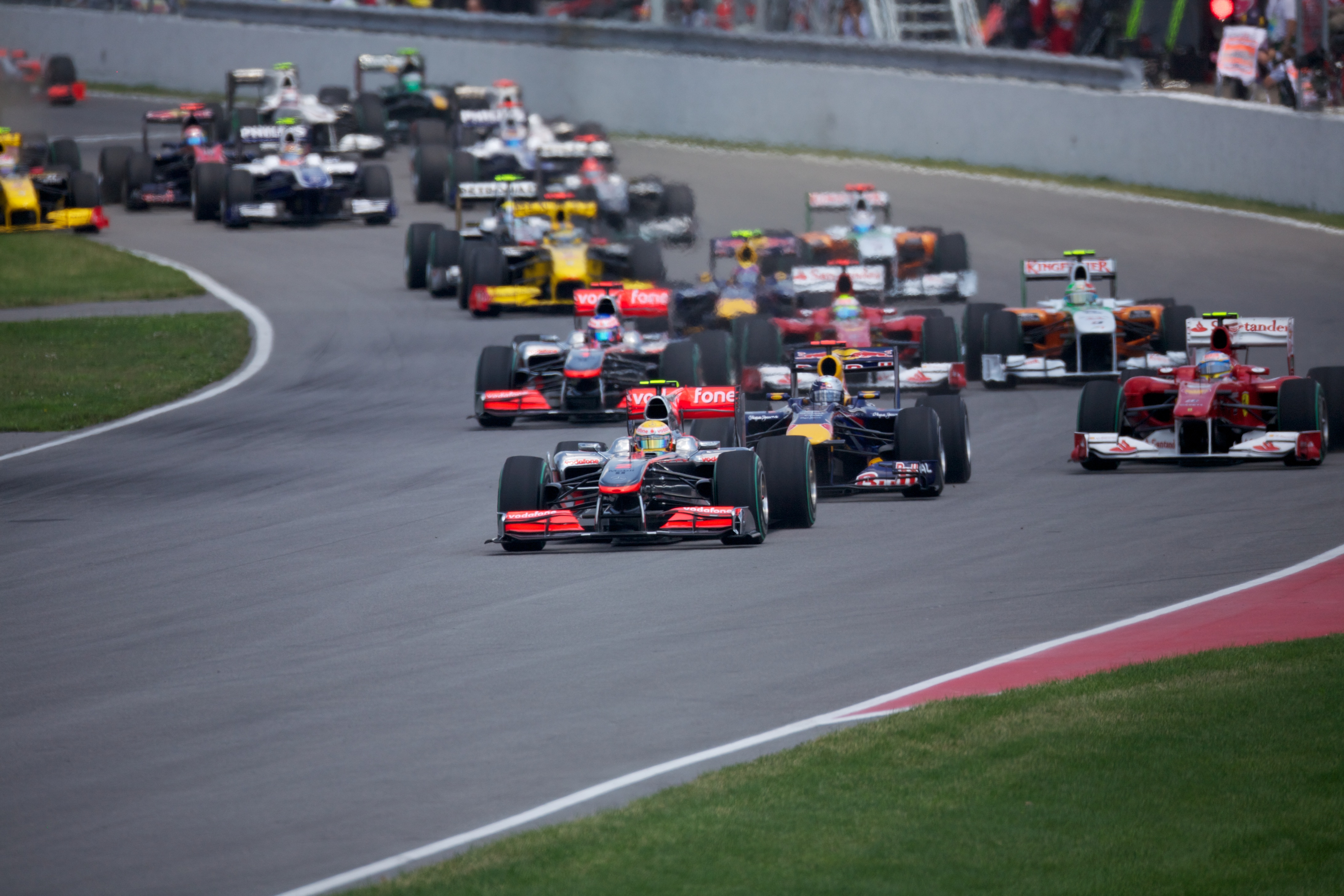 Formula One 2010 Rd.8 Canadian GP: start of the race.